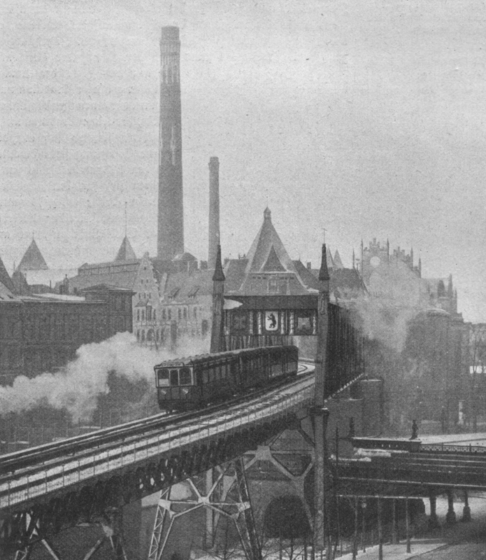 The first train at the Berlin U-Bahn.